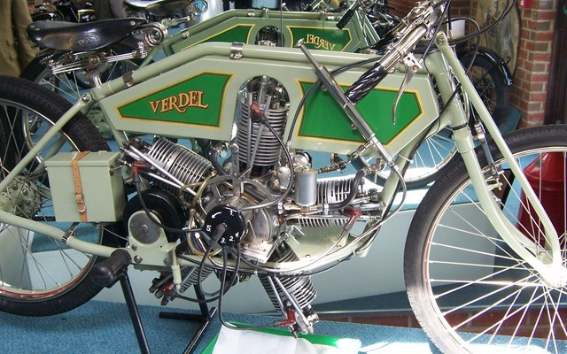 Sammy Miller Motorcycle Museum 2 Just one of the beautifully restored machines. This is one of the weirdest!